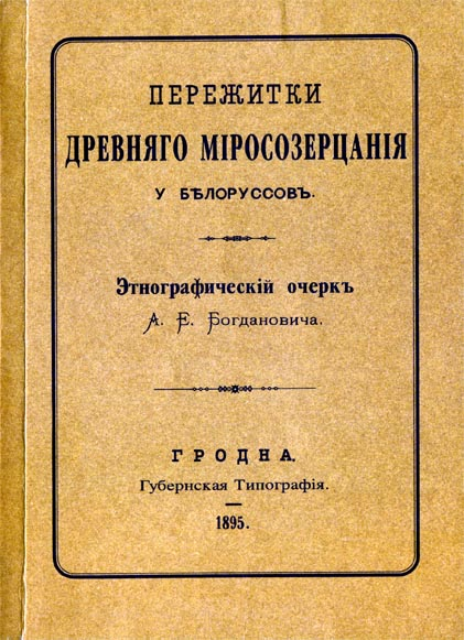 Bogdanovich - The remnants of the ancient world view of the Belarusians, 1895